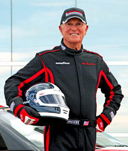 Bob in front of his museum.